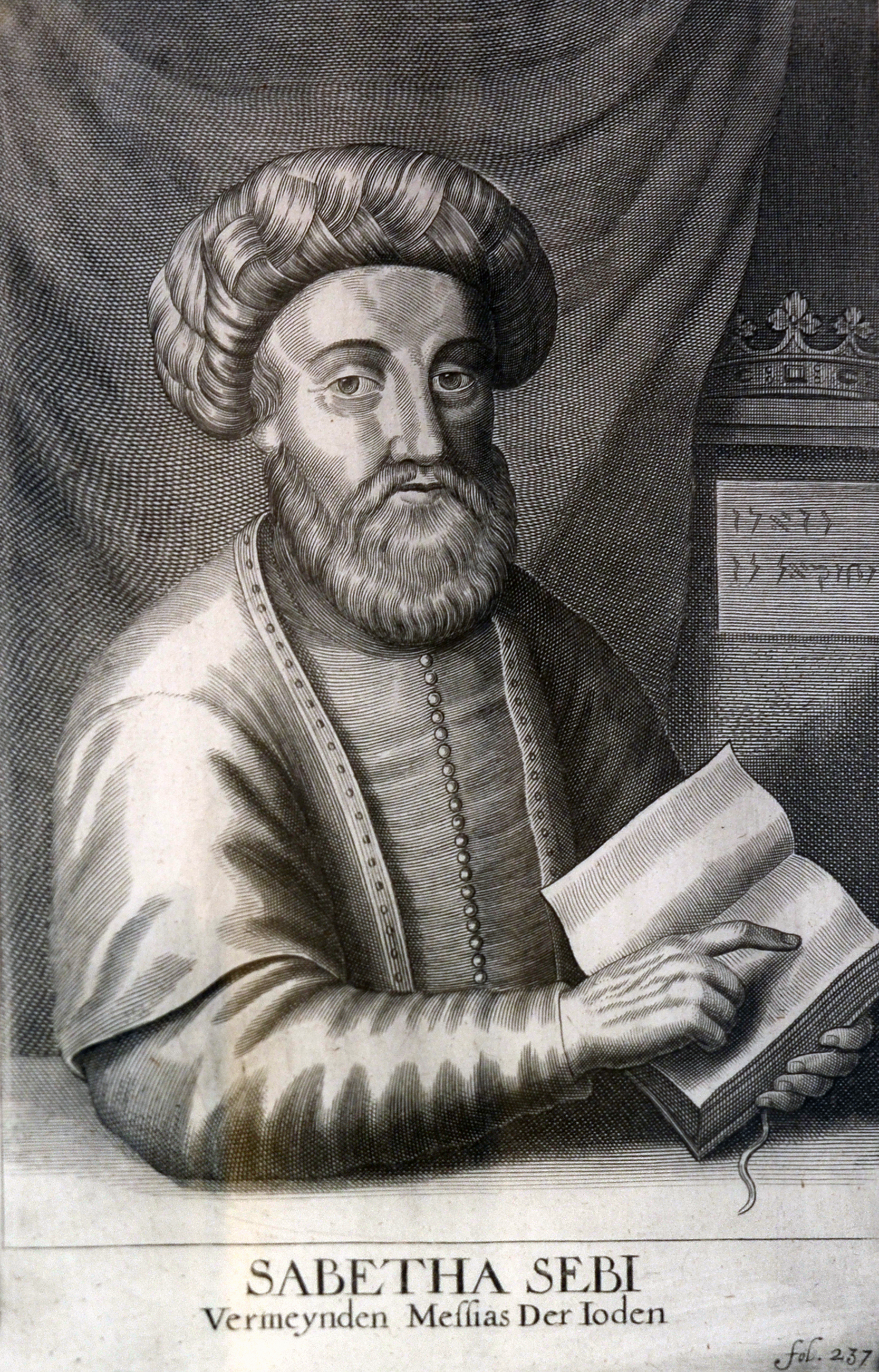 Portrait of Shabbetai Zevi, an old engraving in the Joods Historisch Museum in Amsterdam.